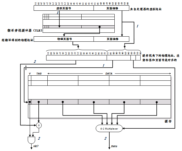 混合使用虚拟和物理地址的缓存